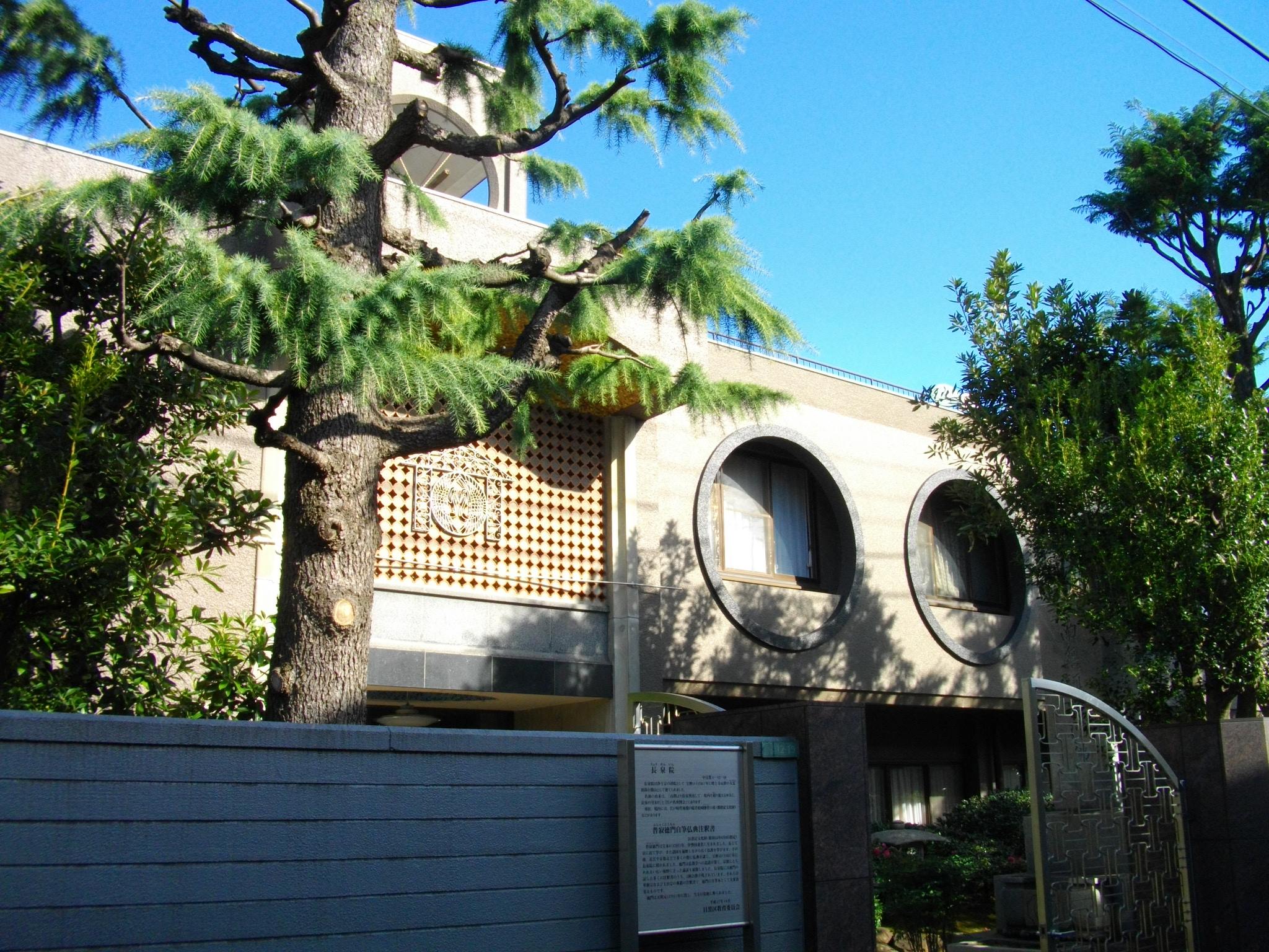 Chosen-in (Meguro)